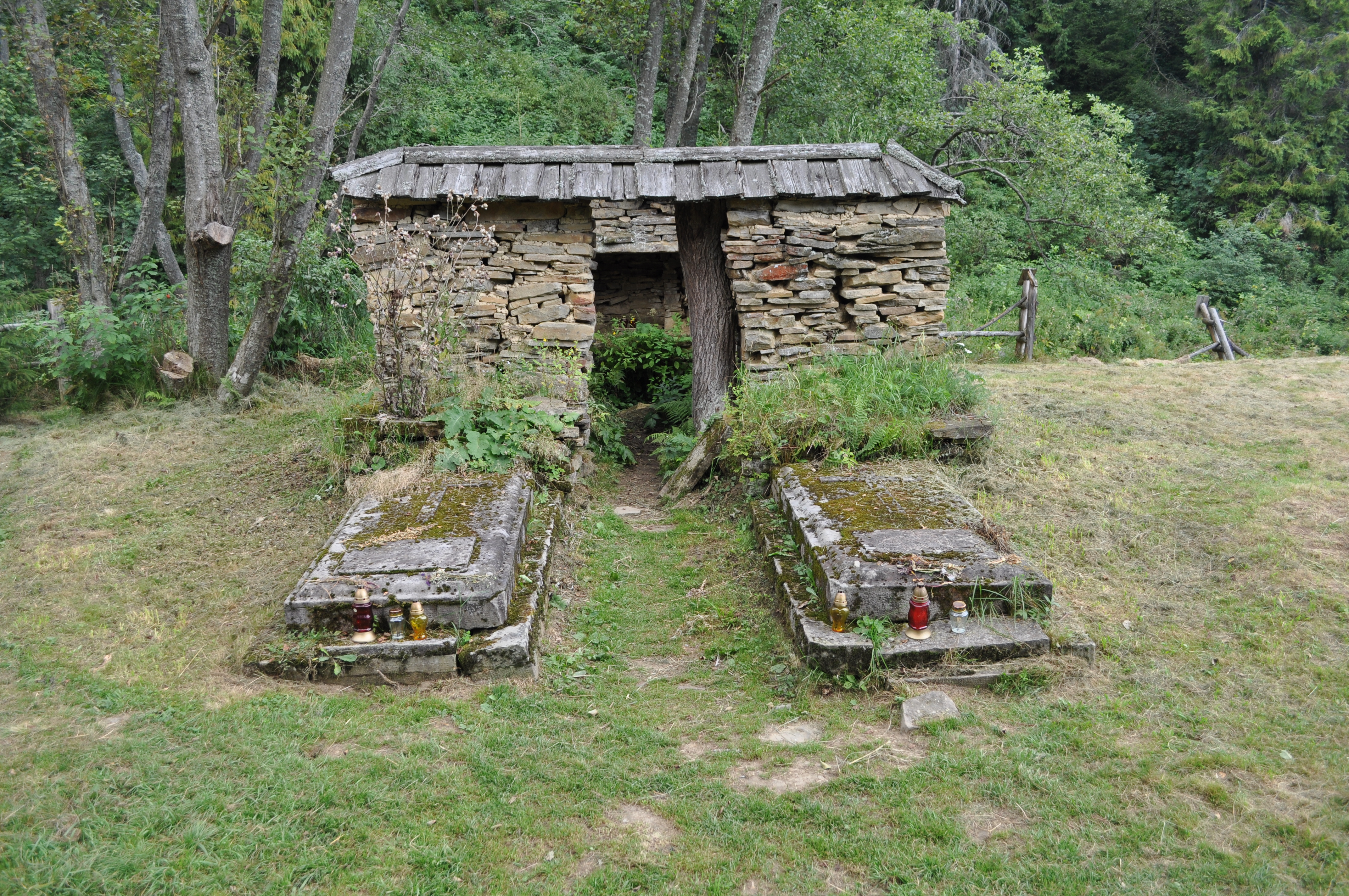 Tomb of Stroinski family in Sianki